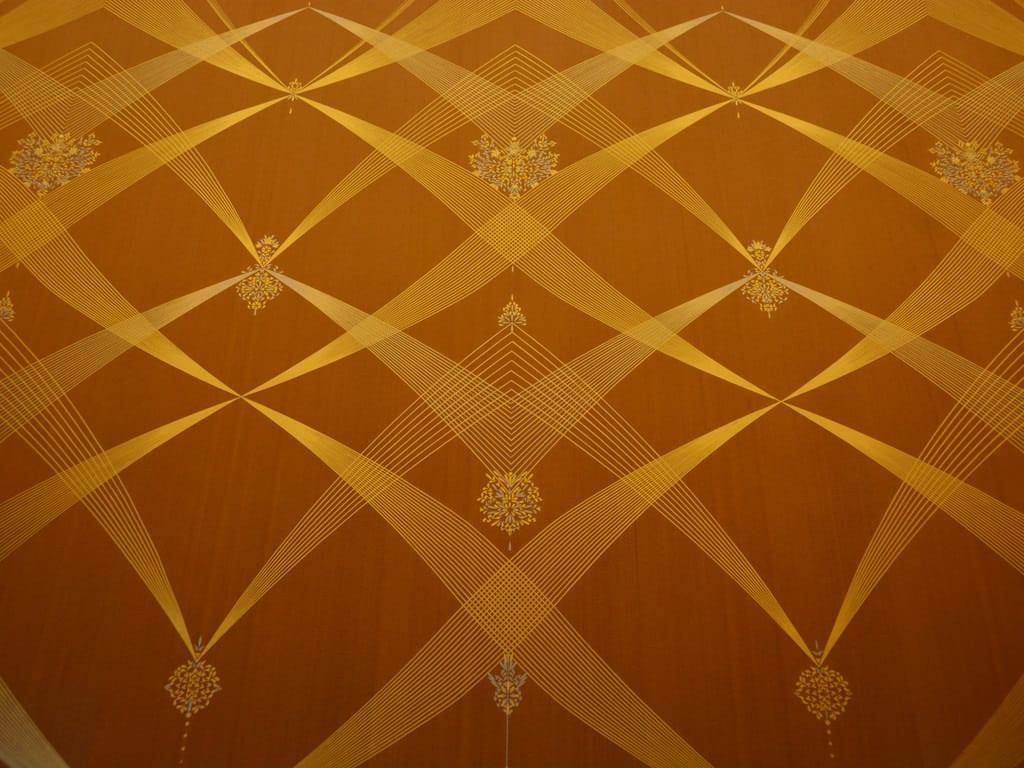 The late Eri Sayoko, a Living National Treasure, created this work using gold and platinum leaf. The gold and silver coming together with the beauty of the one enhancing the beauty of the other are used as a metaphor for people coming together at events in this room. The title of the work is Kōru-kōin.